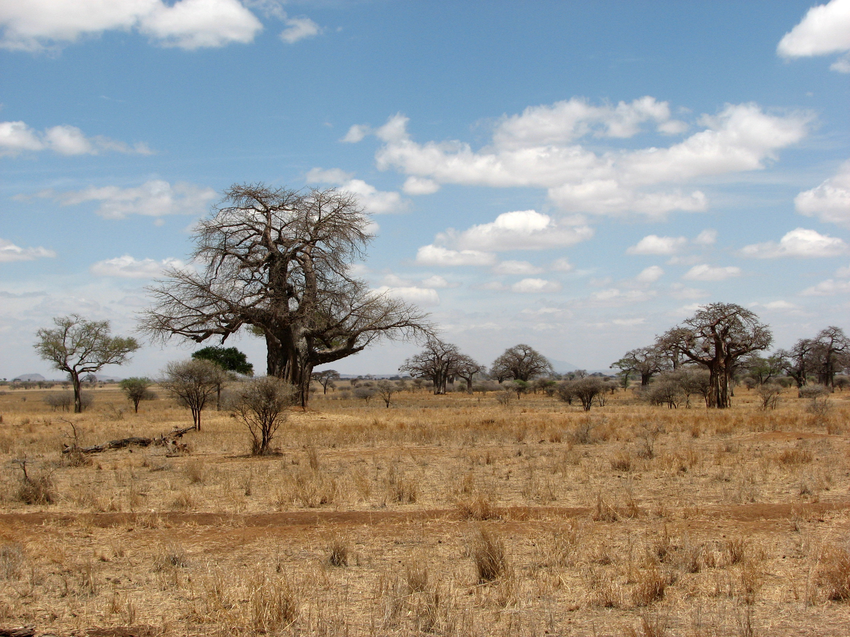 Tarangire National Park: scenery with baobab trees